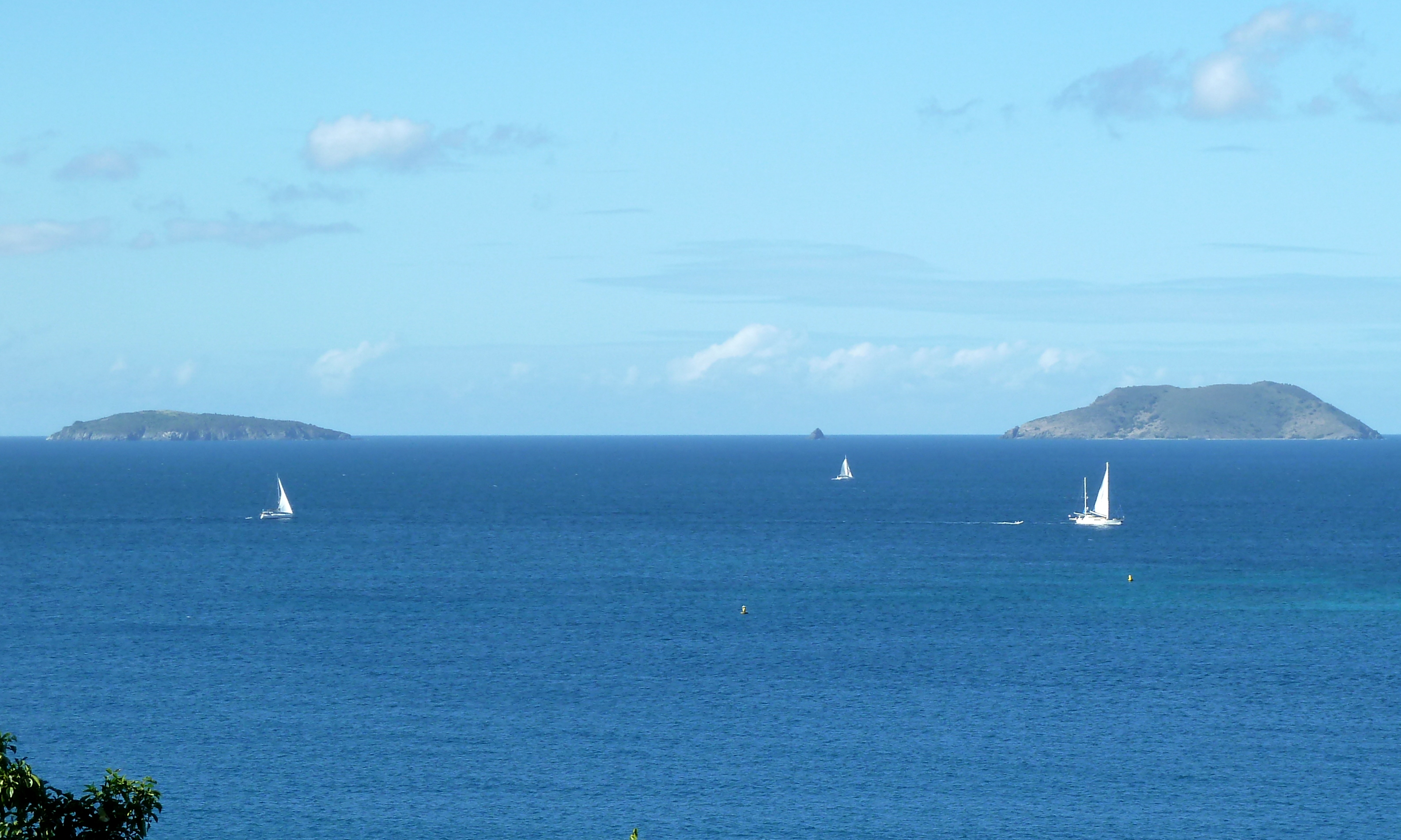 Little Tobago and Great Tobago, BVI, seen from St. John, Dec 2011.